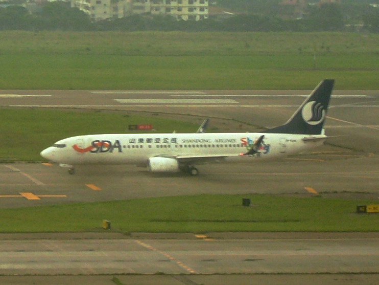 Shandong Airlines Boeing 737-800